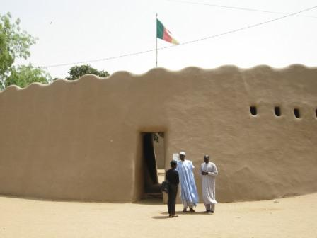 Vice Consul Linnisa Wahid of the U.S. Embassy in Cameroon speaks with local imams outside the Sultanate of Kousséri in March, 2007.